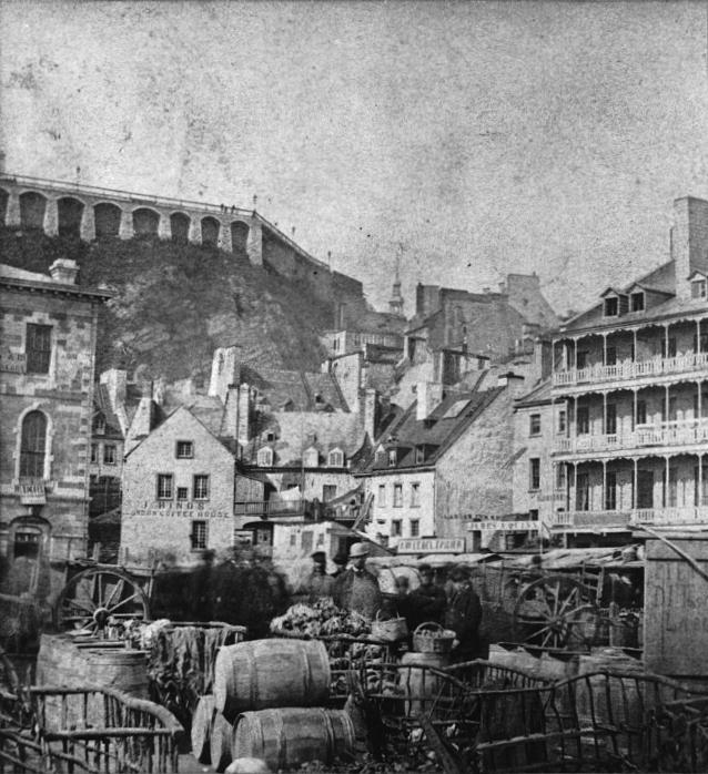 Photograph: Durham Terrace from Champlain Street, Quebec City, QC, 1870-75, by Kilburn Brothers. Silver salts on paper mounted on card - Albumen process - 10 x 17.8 cm